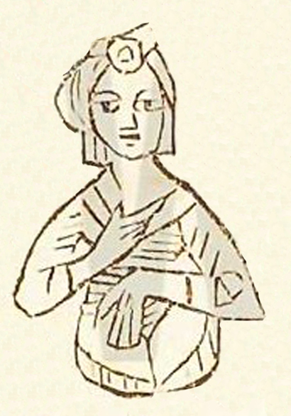 Anna of Austria (1275–1327)